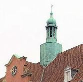 Nordhorn, Glockenturm des Rathauses